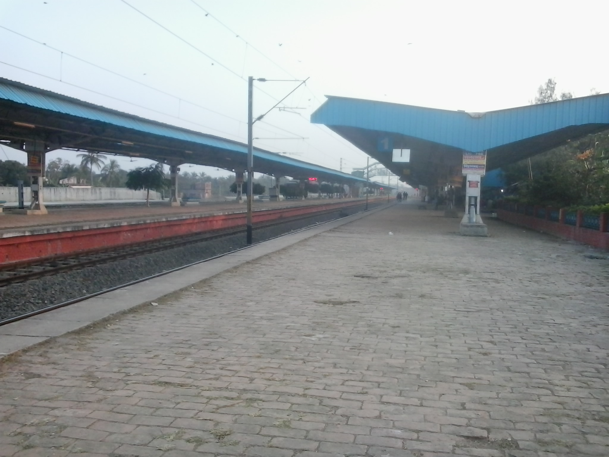 View of Namkhana railway station